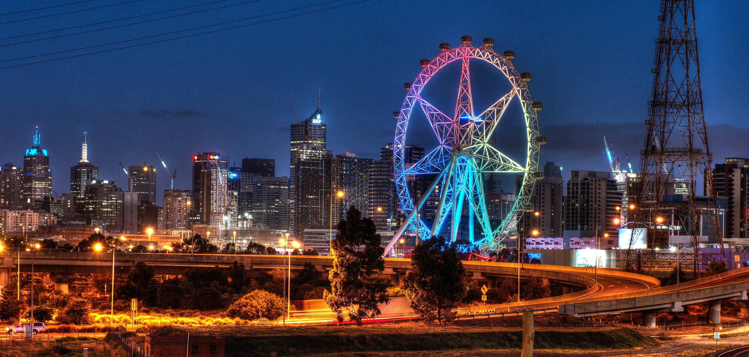 During the reconstruction of the wheel, a lot more apartments have appeared around Spencer st and the Docklands area since 2009. Last ride on the wheel is at 9:30pm, sometime after 10pm, the multi coloured lights go into some sort of shut down mode and remains a single colour and probably switches off all together.